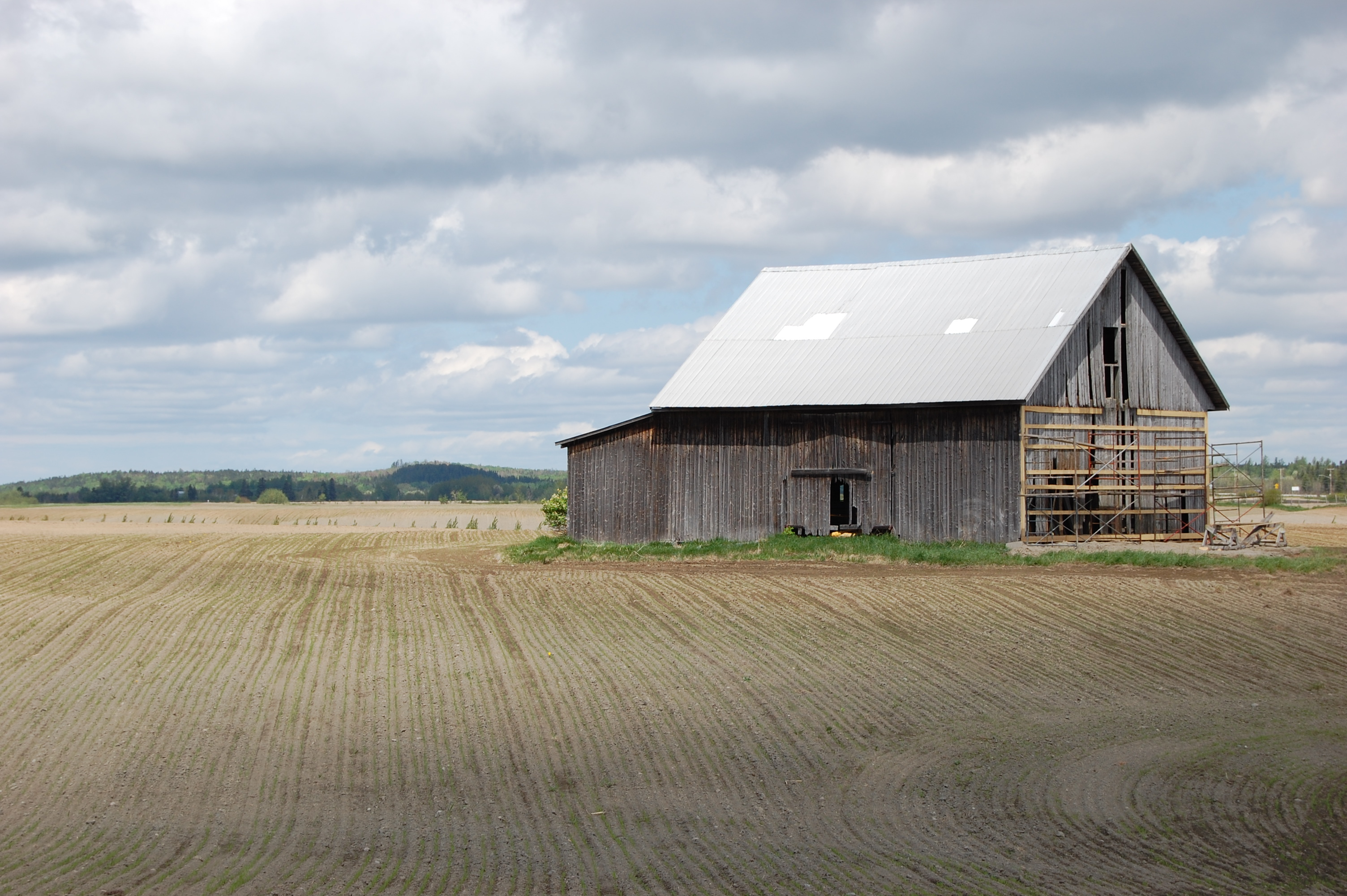 A barn near La Baie, Quebec, Canada